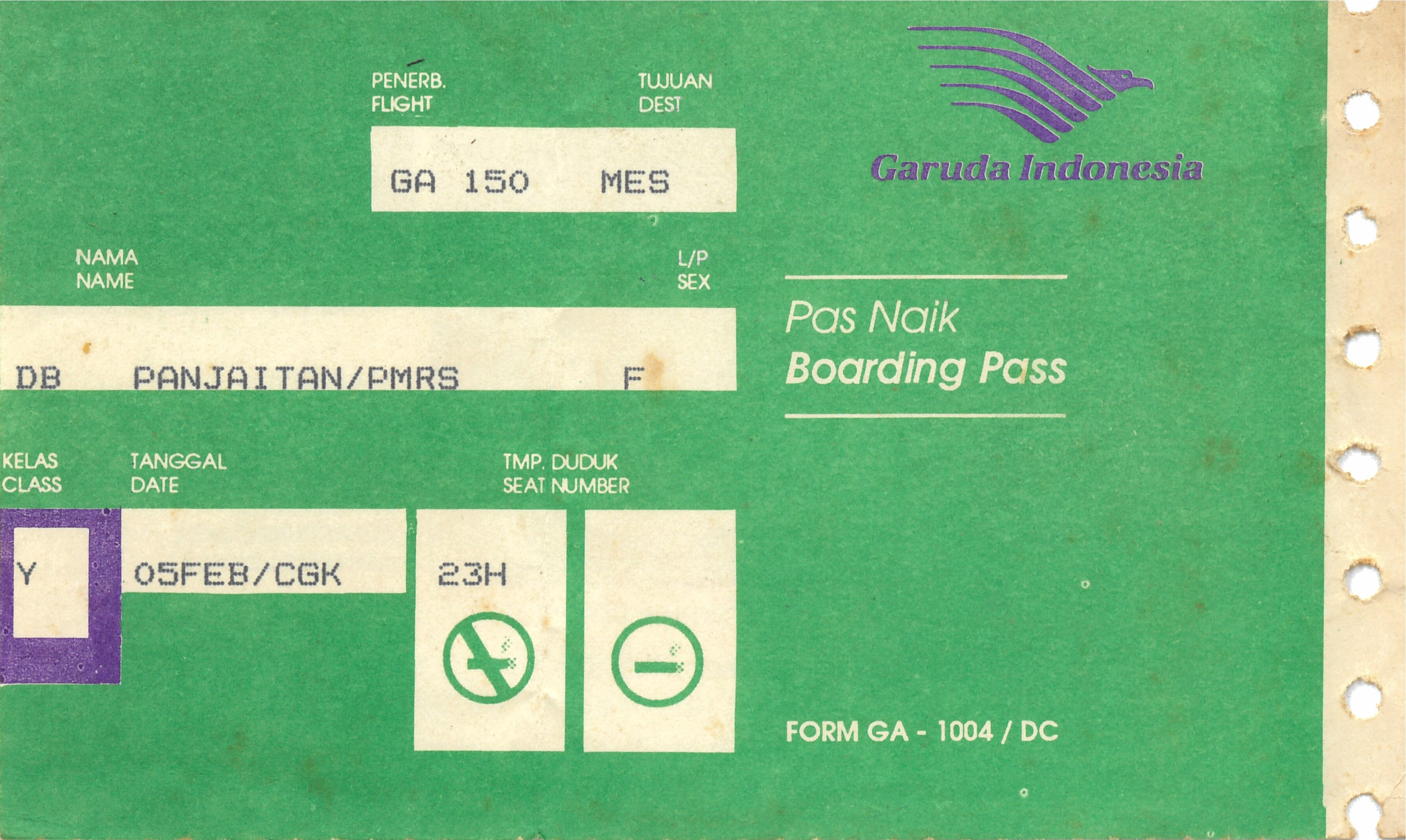 A boarding pass from the Garuda Indonesia airlines, issued for Perak Panjaitan, wife of TH Marpaung.